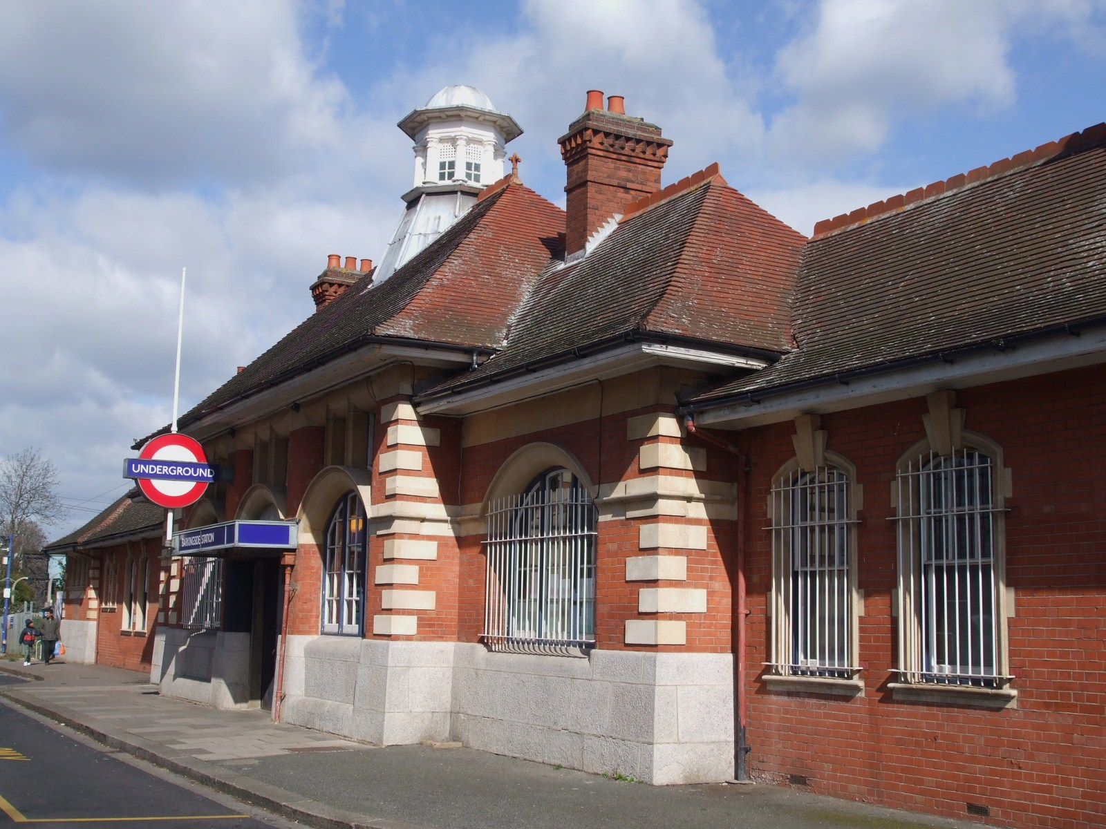 Barkingside tube station building, Grade II listed